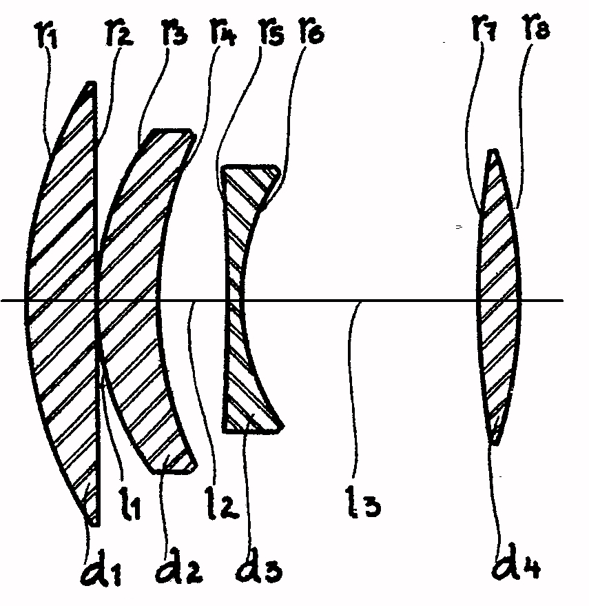 This is the original drawing by Ludwig Bertele, optics designer at Ernemann-Werke AG, Dresden, in his invention of the Ernostar photographic objective (DRP 468499). I only added the straight horizontal optical axis line.